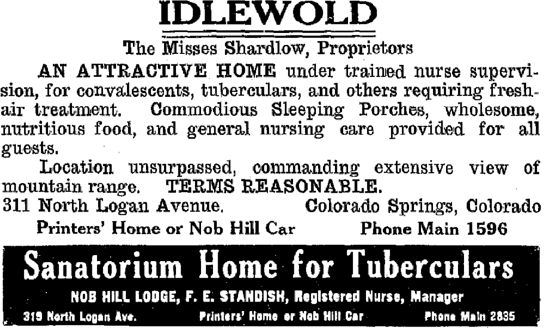 The north end of Logan Av was at the Bethel Hospital complex on E Boulder, which at its east end had the Sunnyrest Sanitarium (the National Methodist Sanitorium at the complex was built in 1926)